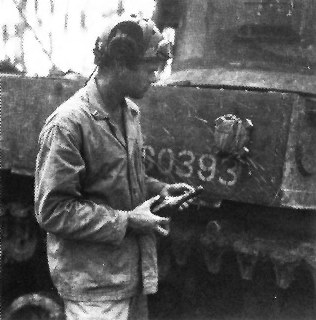 During the Battle of Munda Point on August 4-5, 1943 on New Georgia, US Marine tank commander Capt Robert W Blake examines a Japanese magnetic mine attached to his tank which apparently did not explode.